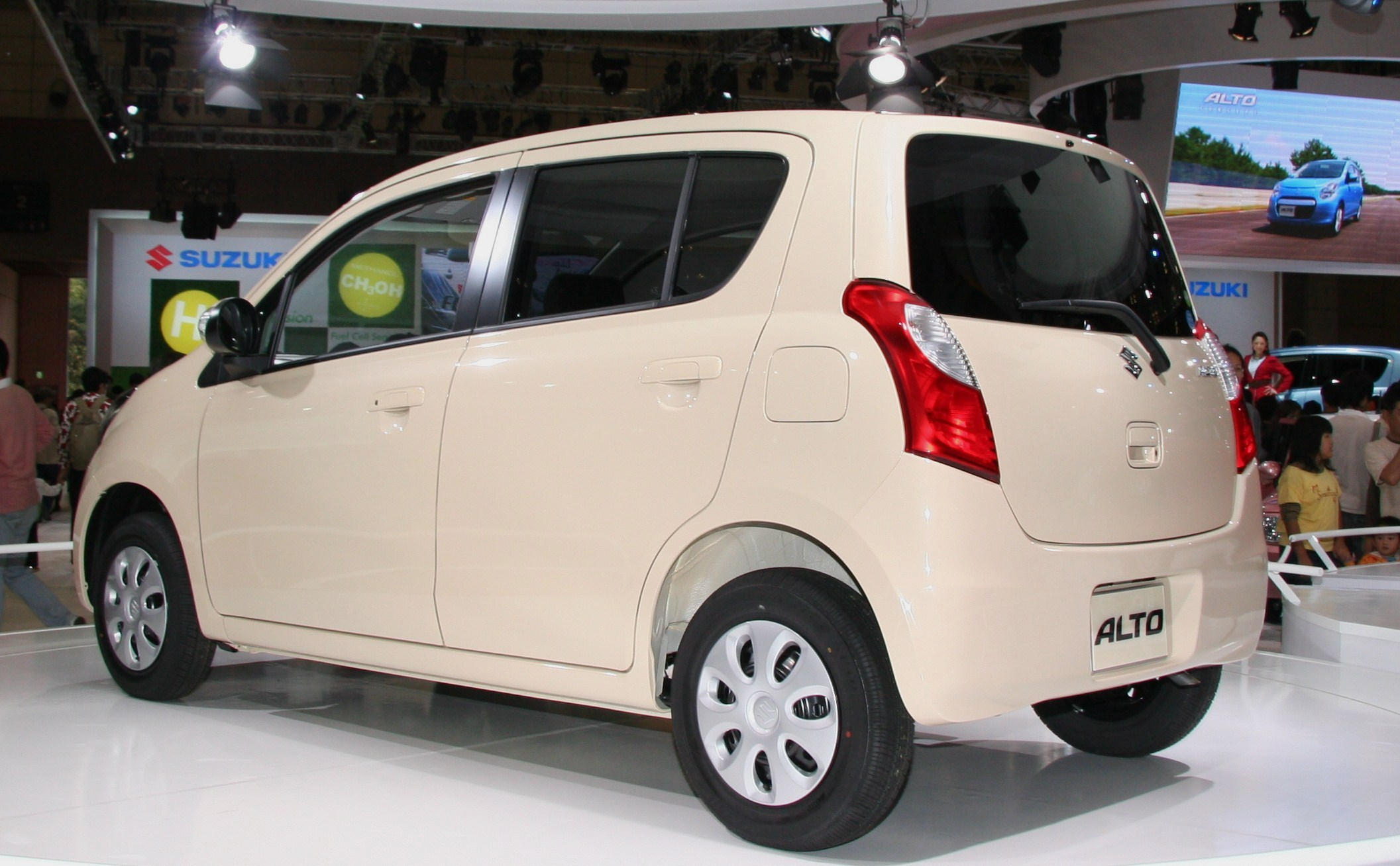 Suzuki Alto